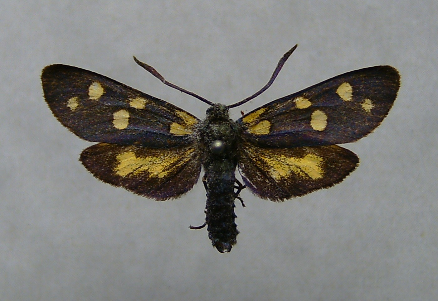 Zygaena transalpina